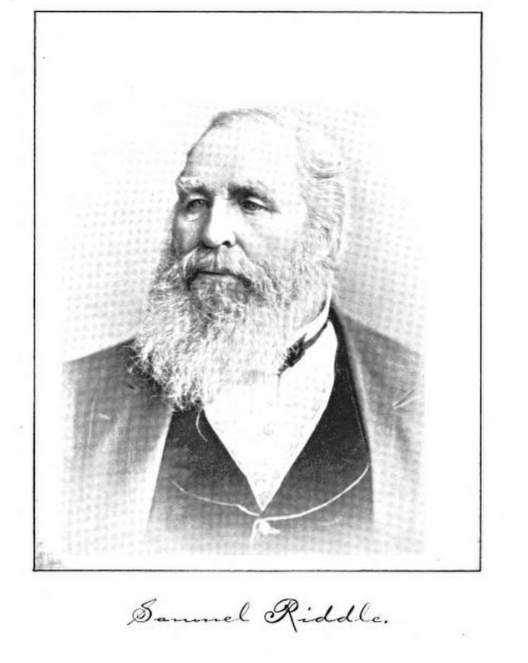 Image of Samuel Riddle from Historical and Biographical Cyclopedia of Delaware County, Pennsylvania